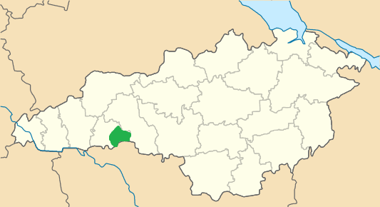 Maps shоwing Bulgarians in Kirovohrad